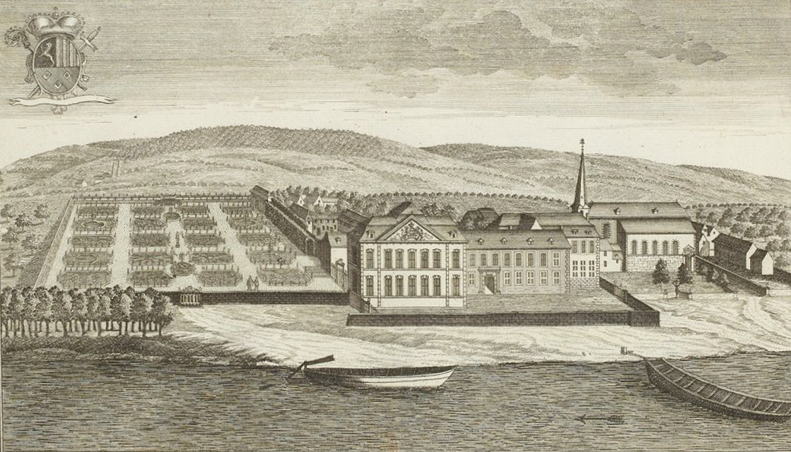 Seraing, Belgium. View of the summer residence of the Liège prince-bishops along the river Meuse in Seraing. 17th or 18th-century lithograph.